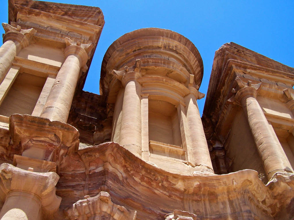 Monastery close-up